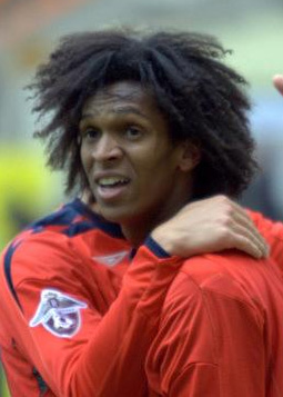 Brazilian forward Jô